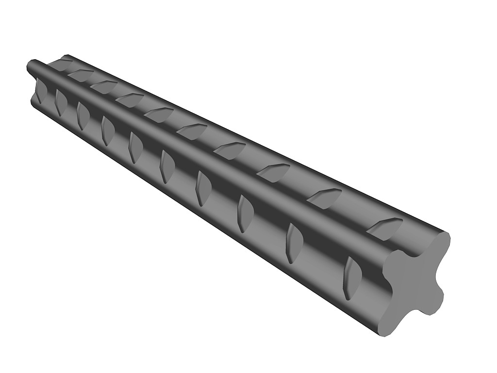 rebar called roxor